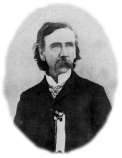 A portrait of Col. William Thompson, editor of the Aturas Plaindealer from his book reminiscences of a pioneer (1919).